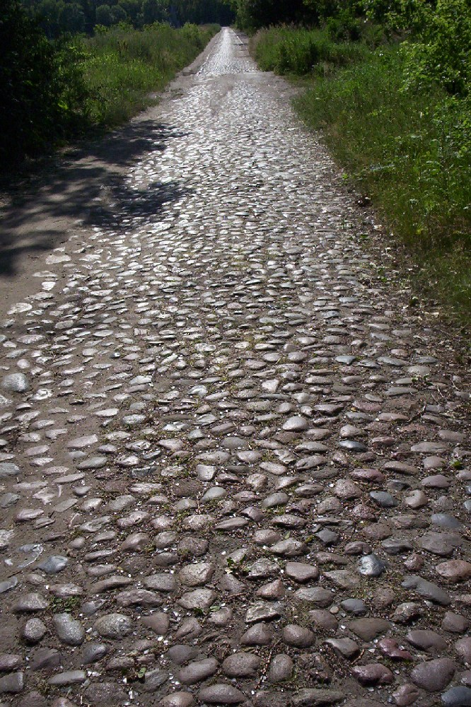 Cobblestoned road from Guzów to Oryszew (Masovia, Poland). It is 2.4 kilometres long.